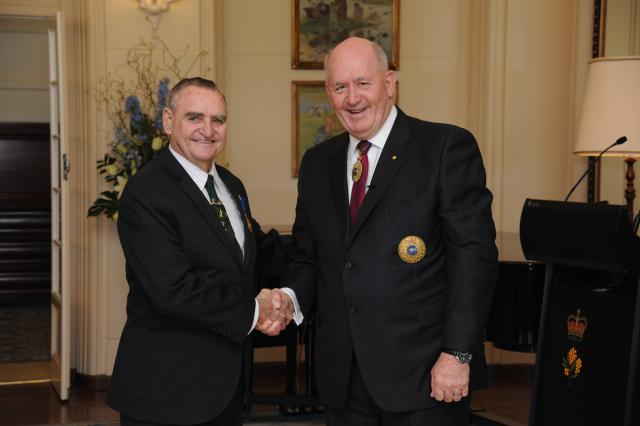 The Governor-General invests Mr Keith Payne VC AM with the insignia of the Member of the Order of Australia